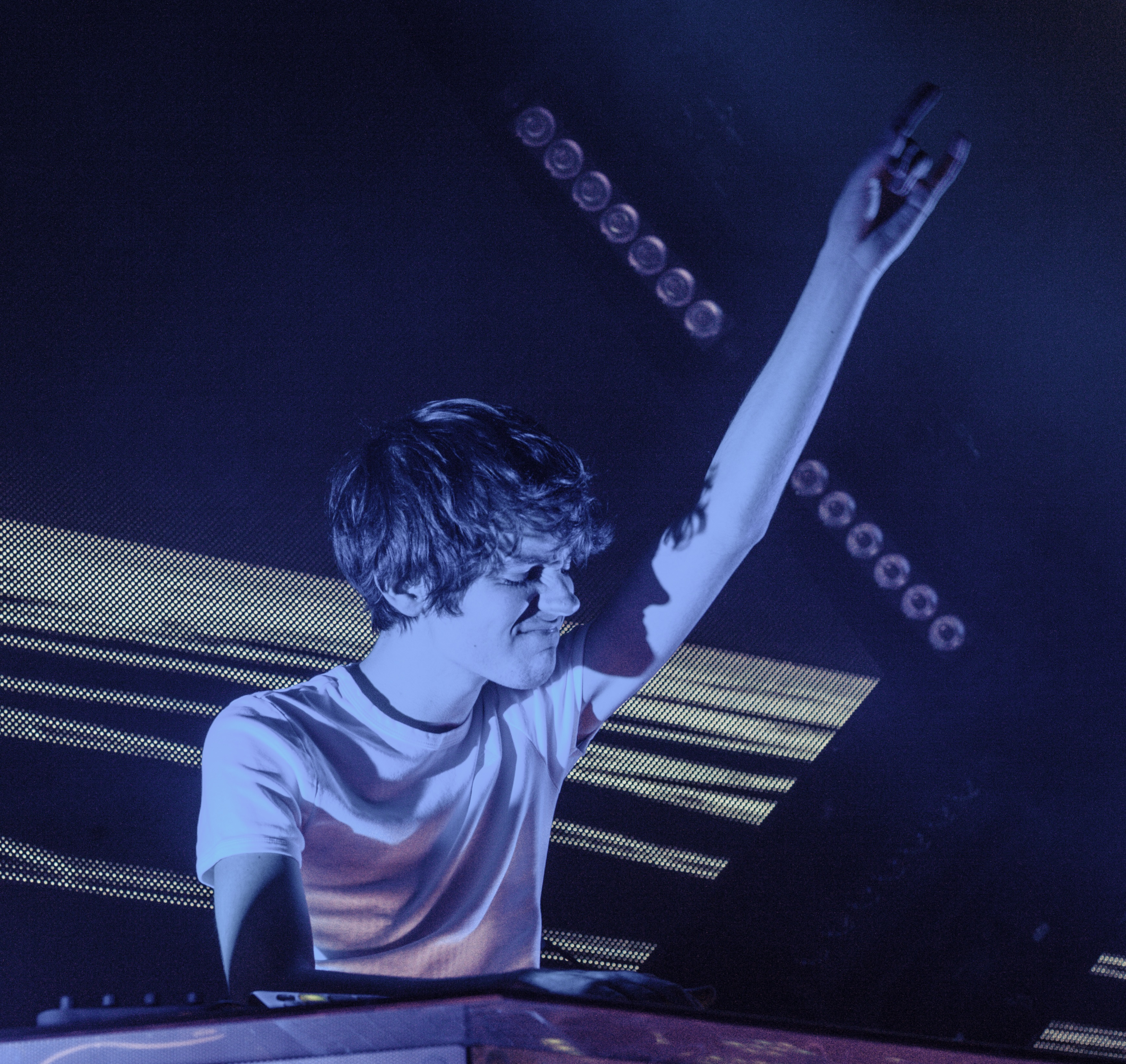 Madeon in 2015